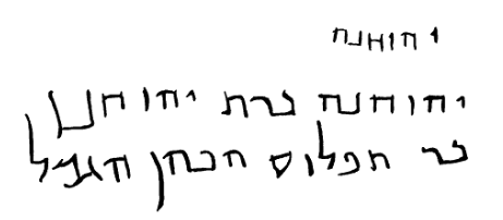 The is the Inscription found on the ossuary of Johanna the daughter of Theophilus the High Priest. It is from the 1st century AD.